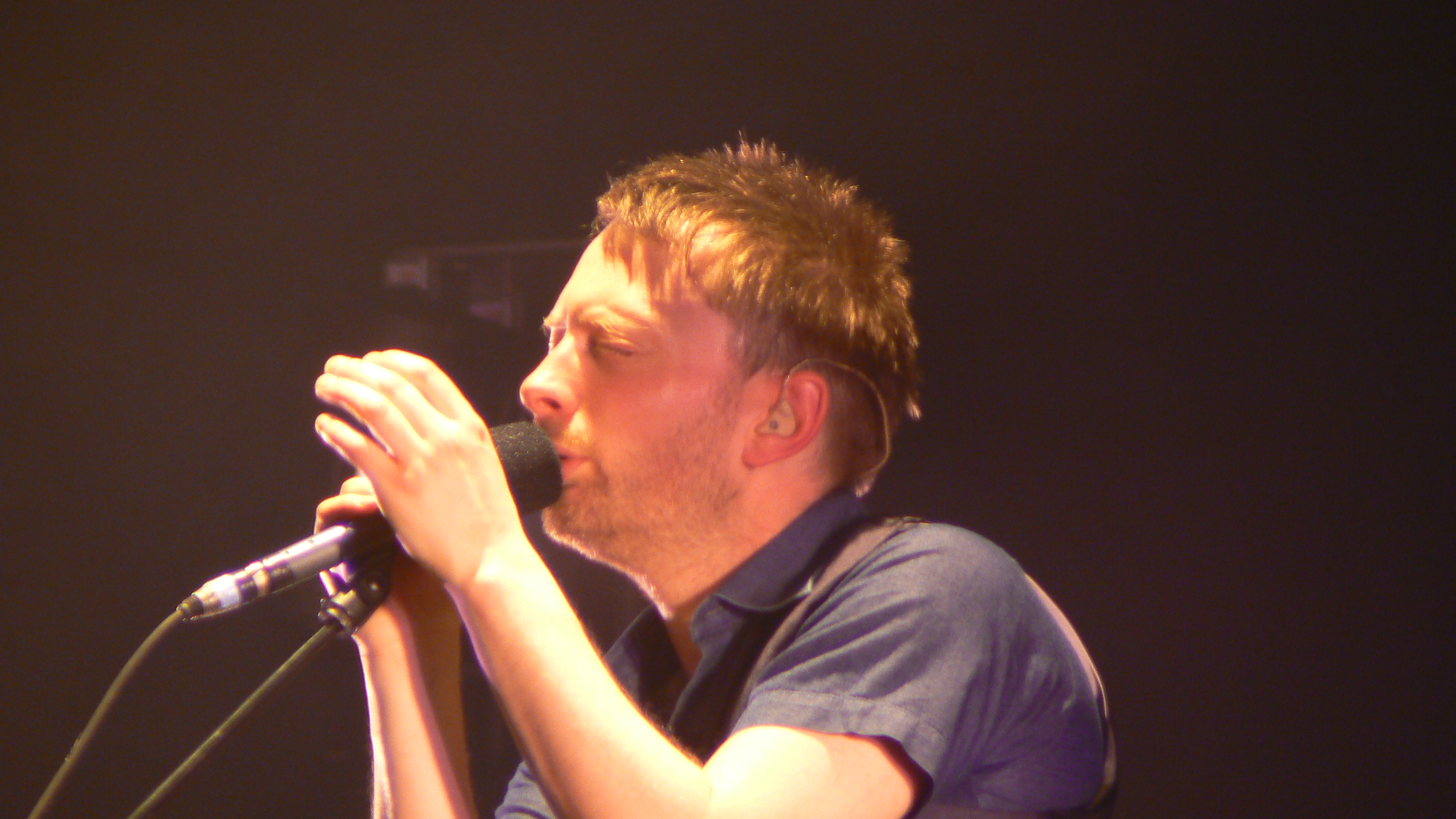 radiohead at heineken music hall, may 9